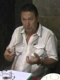 President of FFU Anatoliy Konkov